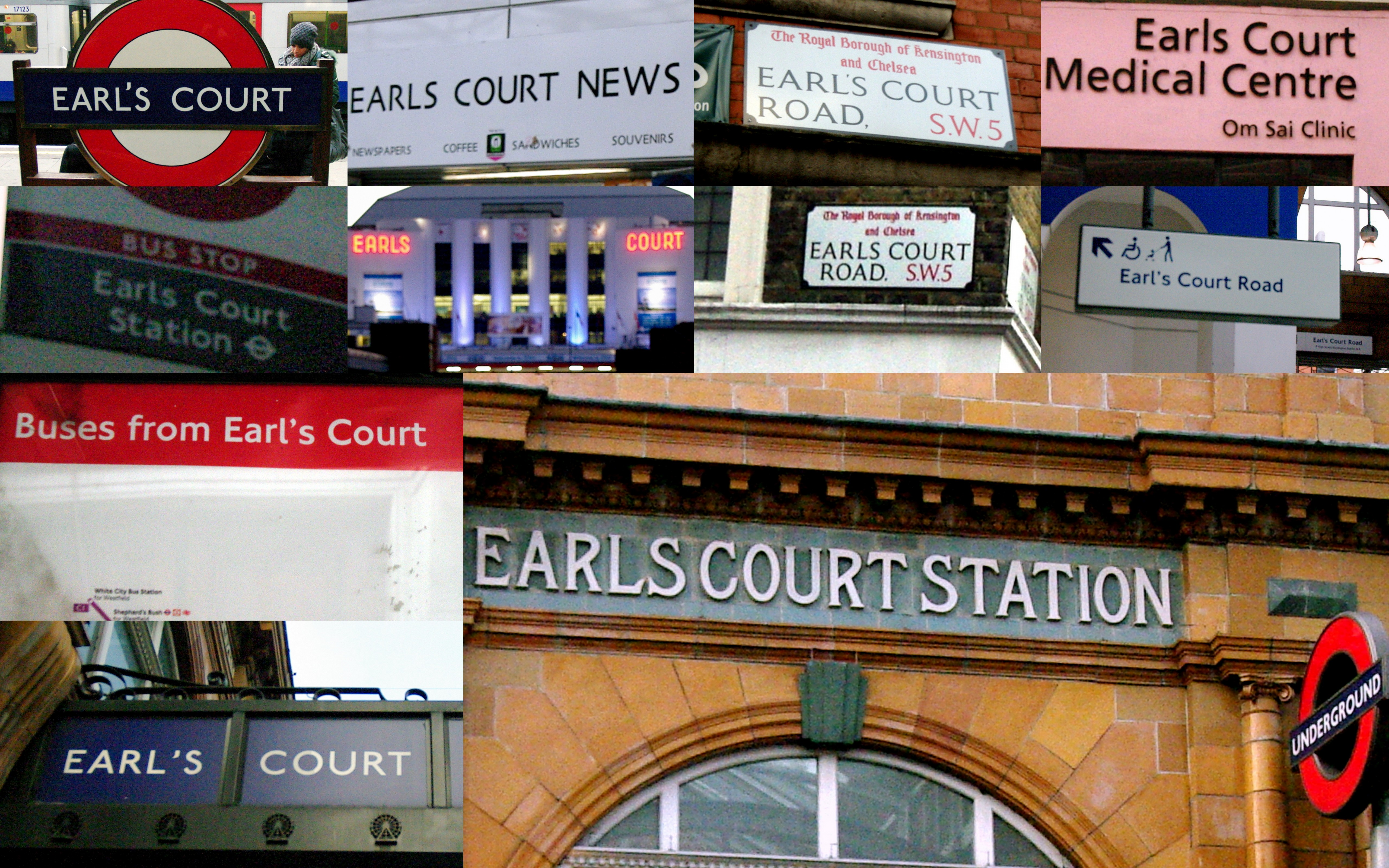 Collage of varying signs concering the writing of Earls Court/Earl's Court and its apostrophe. All original pictures are my own as well.